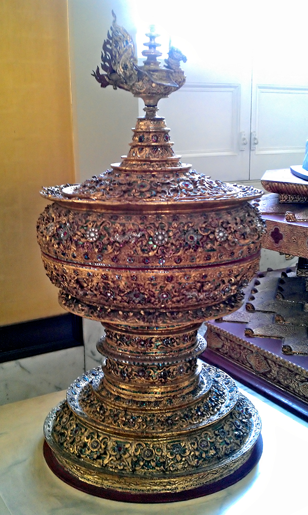 Hsun-ok, container for food offerings. Made up of five individual parts: 1). stand with bowl, 2). inner tray, 3). lid with spire, 4). hintha-bird finial, 5). terminal. The stand, bowl and cover are externally decorated with gold lacquer over thayo decoration and with further designs of inset coloured glass and spangles. The thayo decoration on the stand and lid includes fine examples of mythical animals. The wings and tail of the hintha-bird finial are lacquered metal. The interior of the container is lacquered scarlet and black. Made of woven, split bamboo, moulded thayo decoration, inlaid glass and lacquer. One of a pair. Height: 104 centimetres (approx)